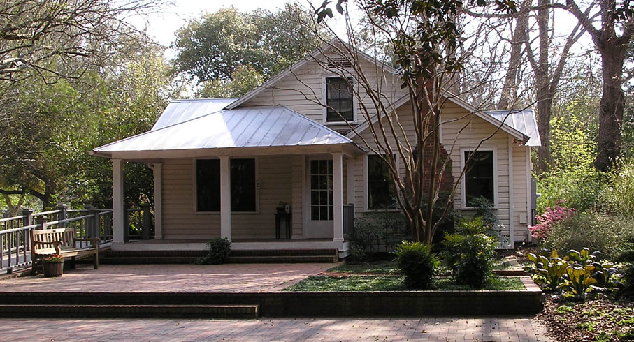 Bland Cottage at Georgia Southern Botanical Garden a part of Georgia Southern University in Statesboro, Georgia. Photograph taken by Richard Chambers on March 11, 2007 while sauntering about the grounds looking for appropriate photos to put into Wikipedia for the Georgia Southern Botanical Garden topic.